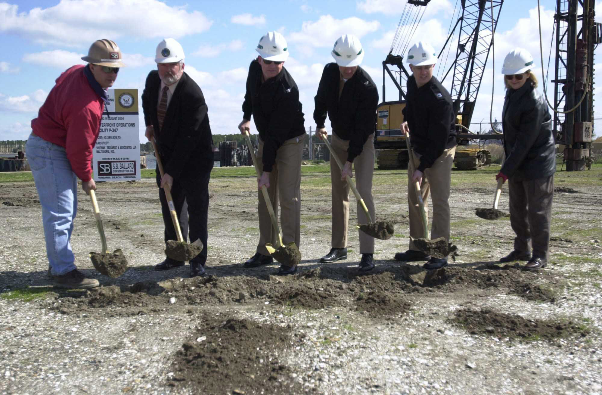 Little Creek, Virginia (Apr. 2, 2003) -- Breaking ground for the new Port Operations Tower, from left, Paul Littlefield, project manager of S.B. Ballard; Henry J. Hoffman, Naval Facilities Atlantic Division architect; Capt. Jim O'Keefe, commanding officer of Naval Amphibious Base Little Creek; Capt. Jerry Becker, program manager of Port Operations; Lt. Chris Meyers, Little Creek's Resident Officer in Charge of Construction; and Ellen Freinofer, LantDiv project manager. U.S. Navy photo by Senior Chief Journalist Melissa Pinsonneault. (RELEASED)